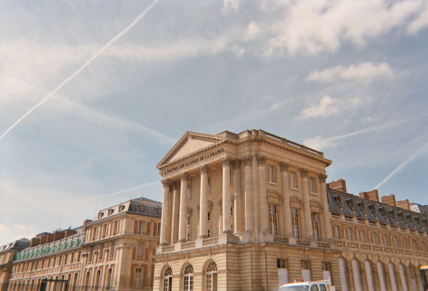 This is a photo of the palace at Versailles.